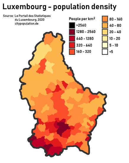 A map representing the population density in Luxembourg by commune, as of 2020.